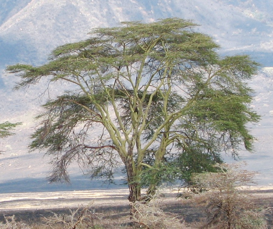 Steve Pastor Ngorongoro Tanzania October 2006